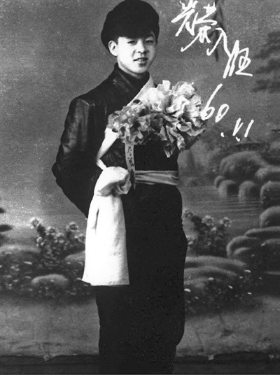 Lei feng was wearing a leather jacket in 1960.